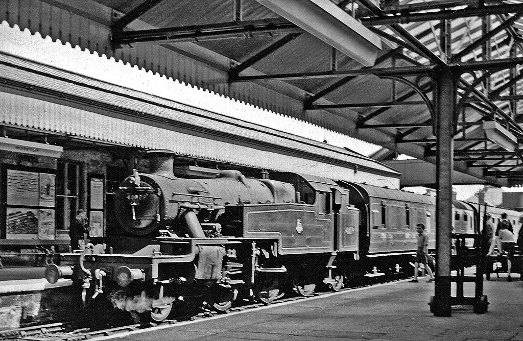 Worksop Station, with train from Nottingham. View westward, towards Sheffield, also Mansfield; ex-Great Central Sheffield - Retford - Lincoln etc. main line, junction of ex-Midland line from Nottingham via Mansfield (now the Robin Hood Line). The train is the 11.46 local from Nottingham, headed by LMS Stanier 3P 2-6-2T No. 40079.